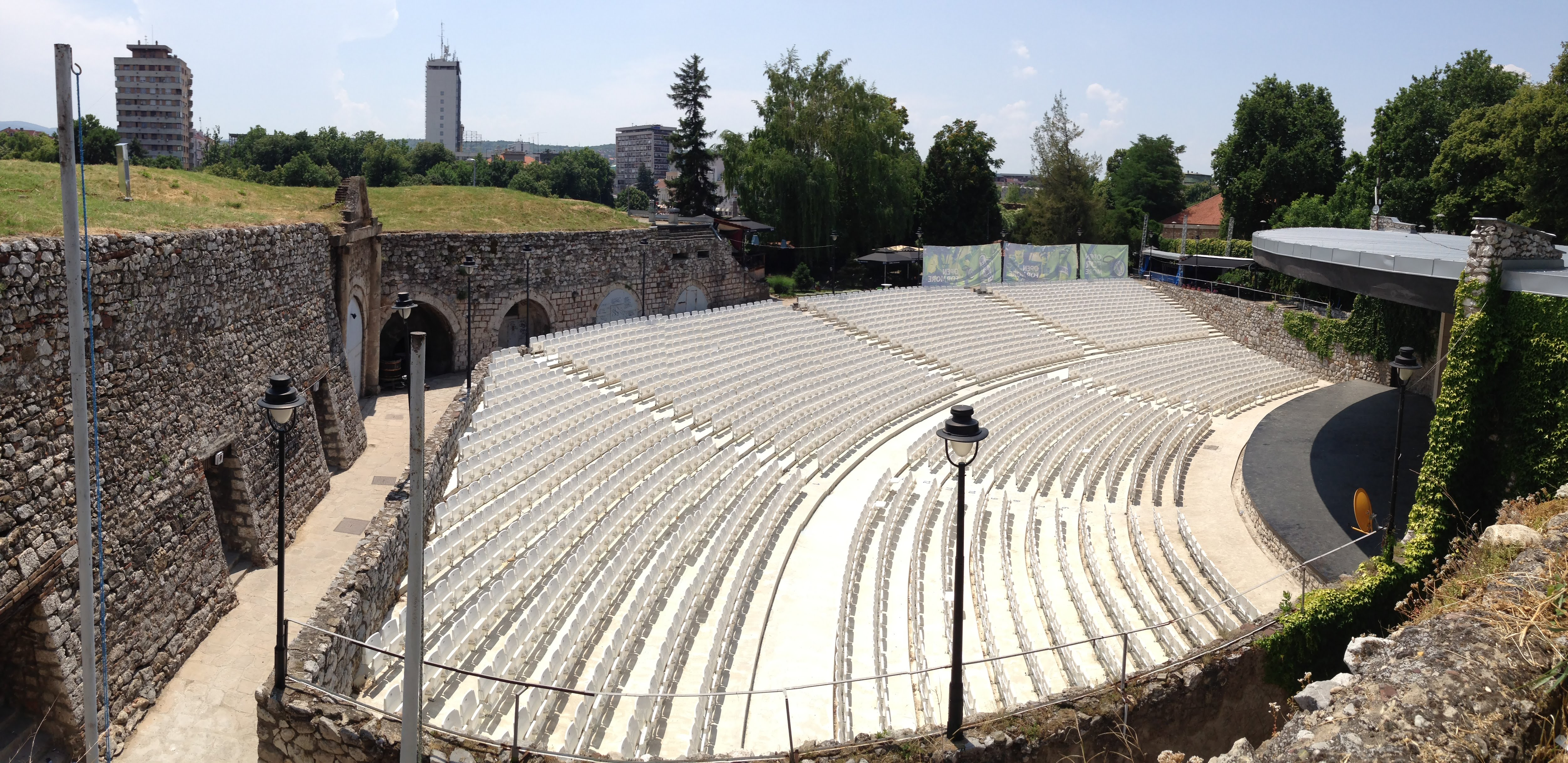 Summer stage in Niš Fortress, panoramic picture